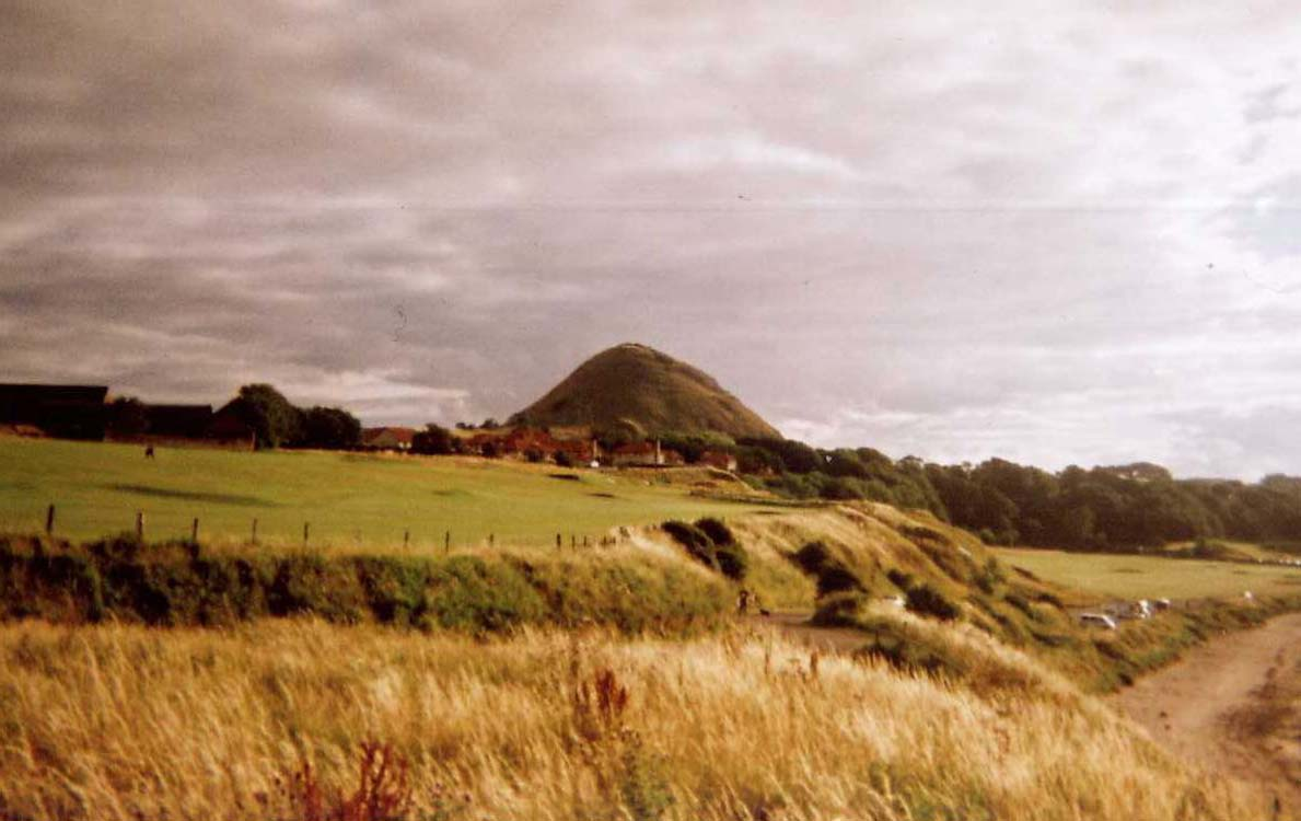 North Berwick Law, North Berwick, East Lothian